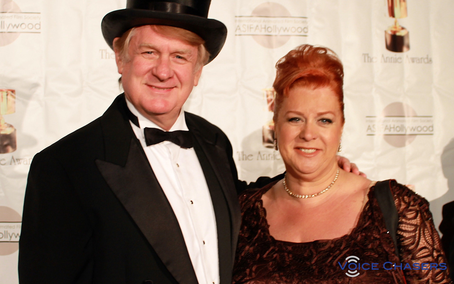 Annie Award nominee Bill Farmer and wife, Jennifer Farmer, at the 41st Annual Annie Awards.